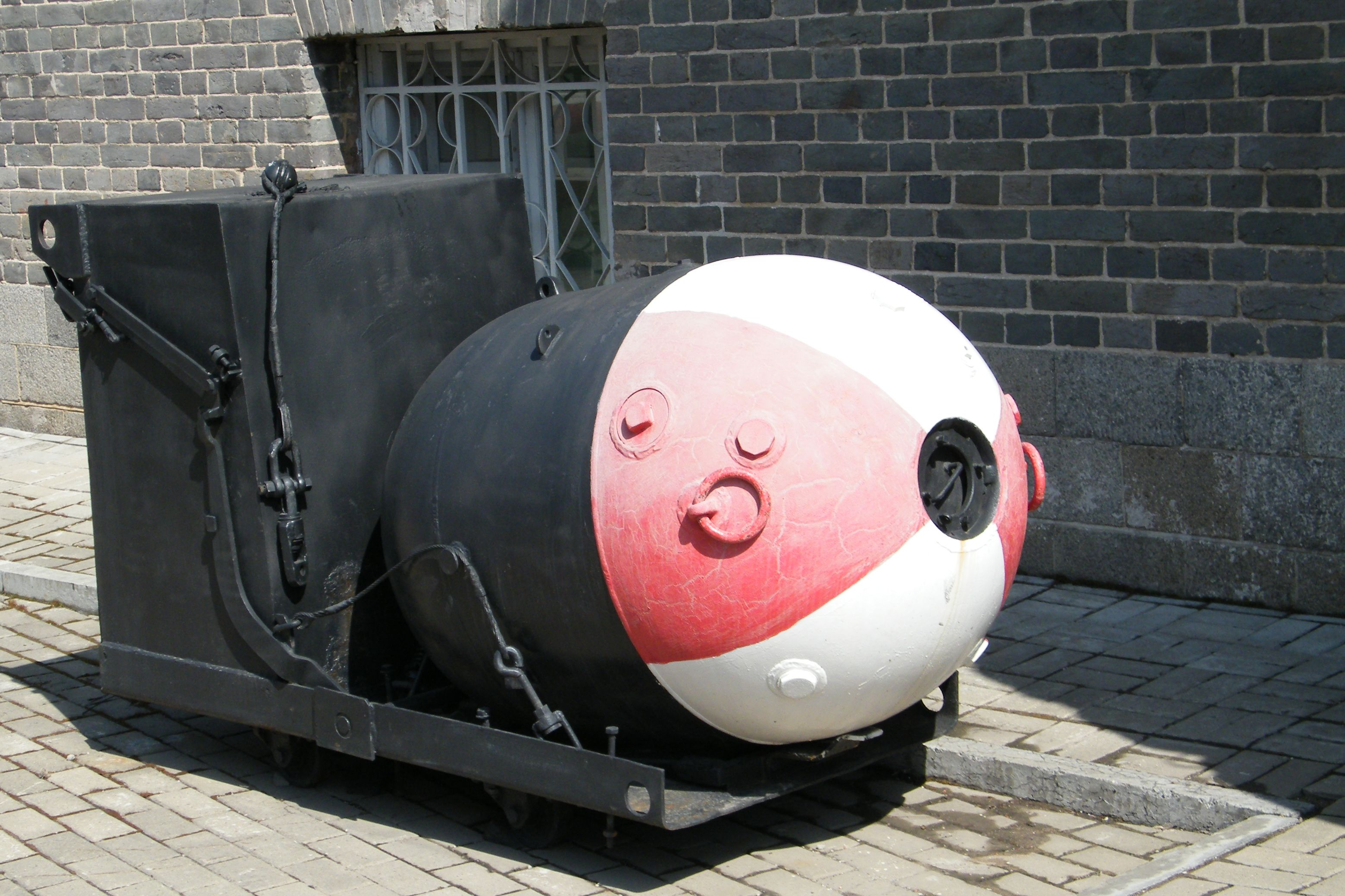 Якорная морская мина в Хабаровске